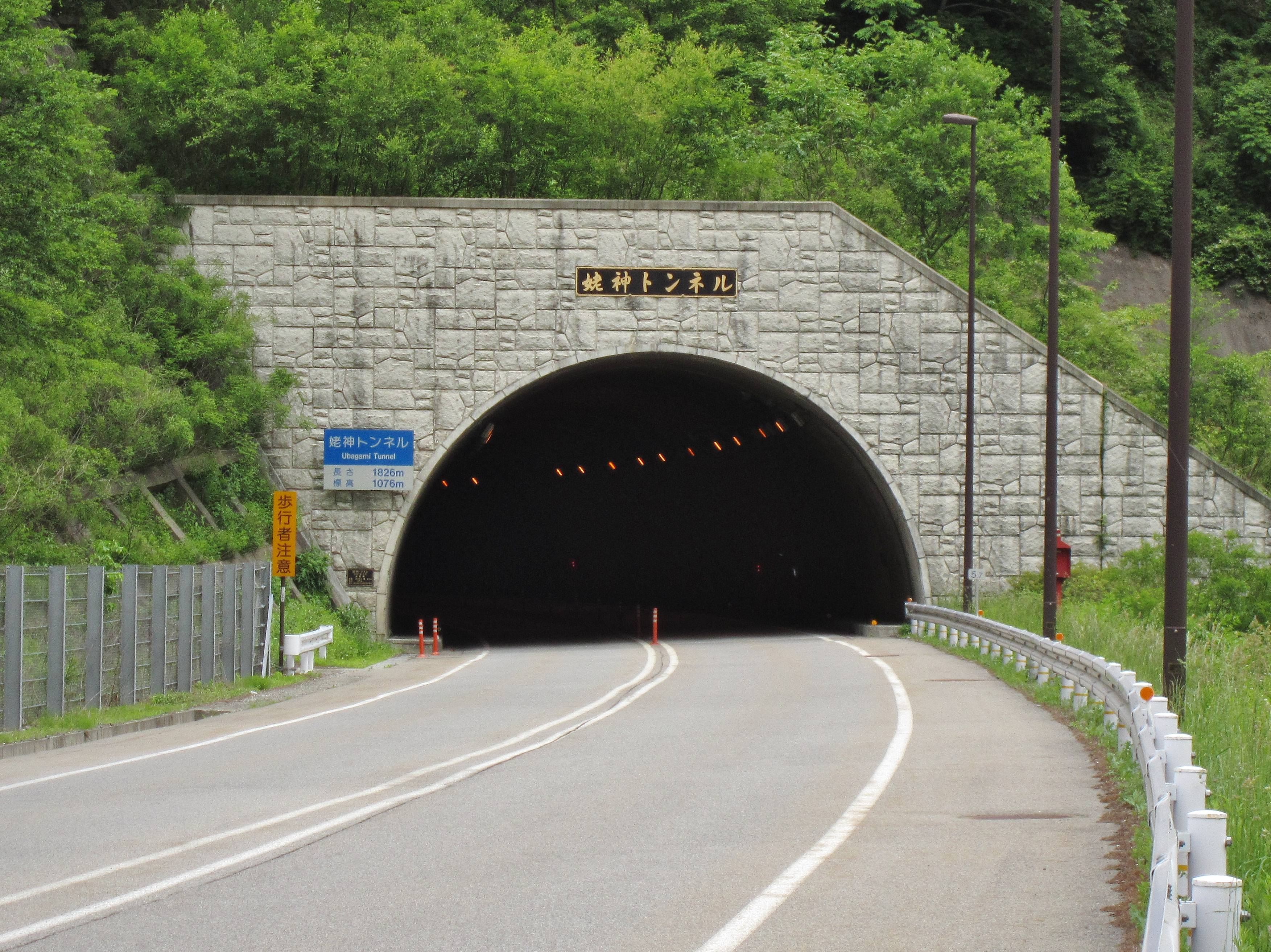 Ubagami Tunnel.